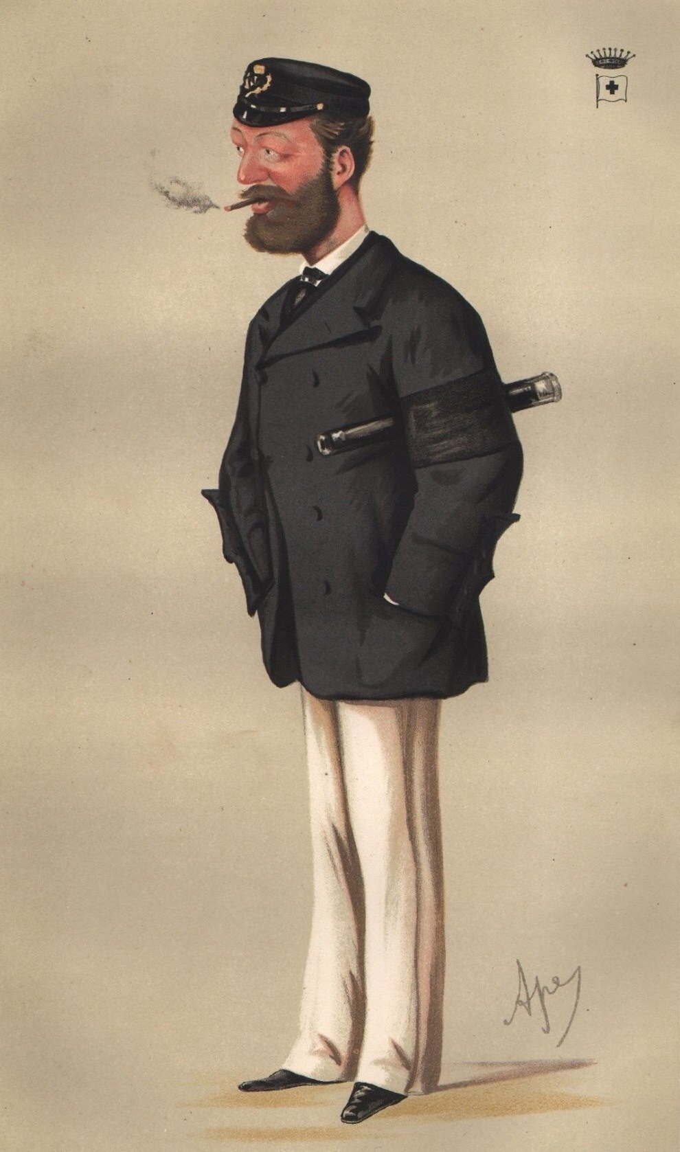 Caricature of Count Edward Batthyany. Caption read "Yachting".